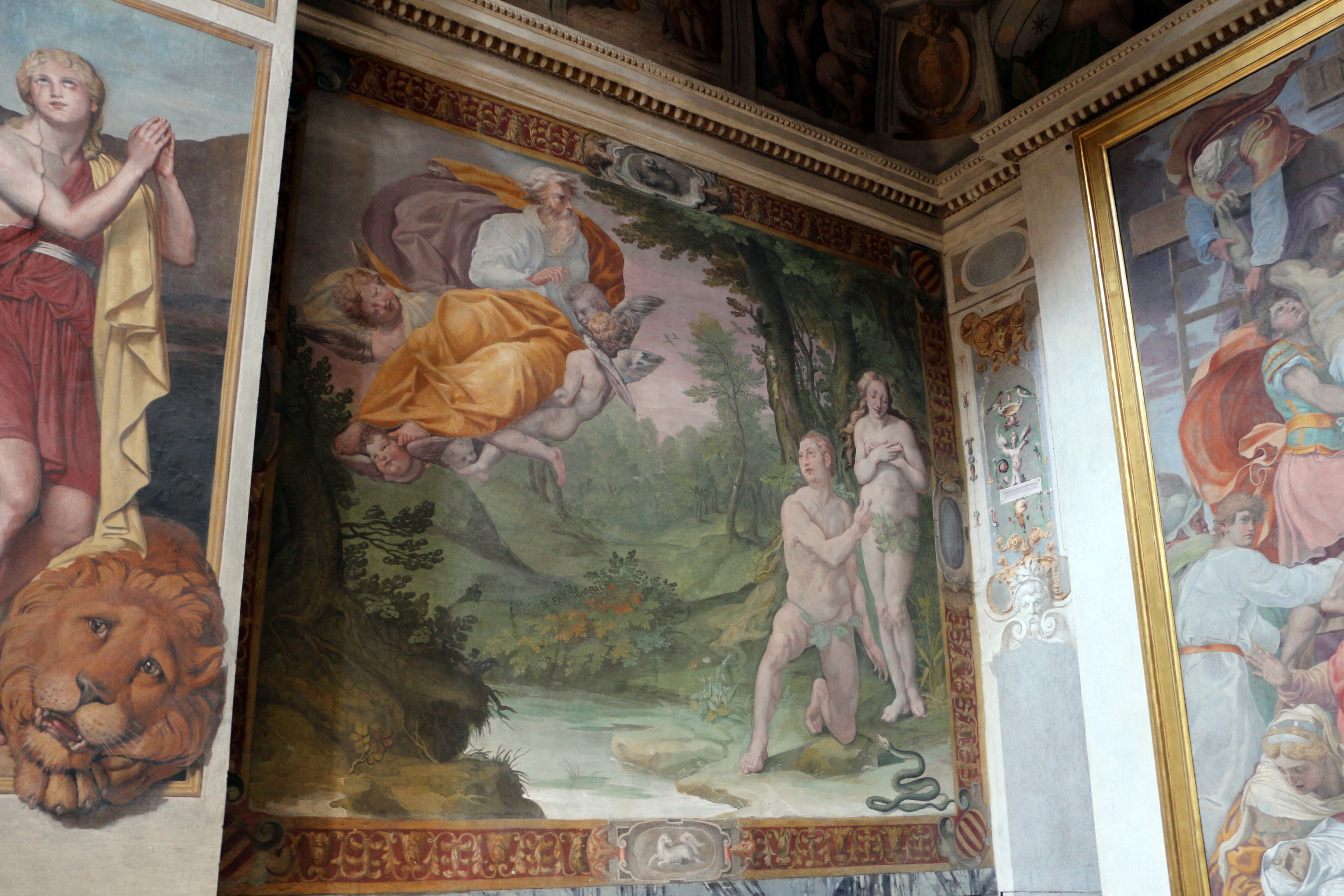 Trinità dei Monti (Rome) - Chapel of the Deposition